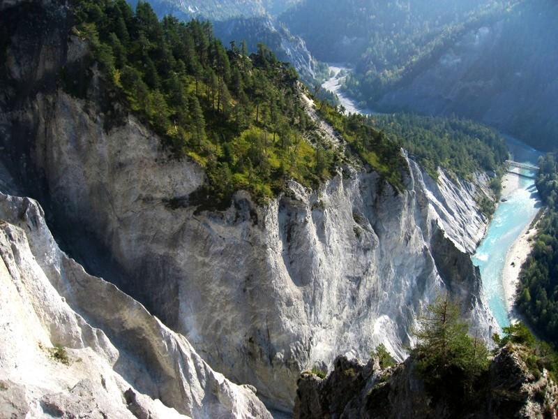 Ruinaulta (Rhine Gorge), the Swiss grand canyon, near Flims